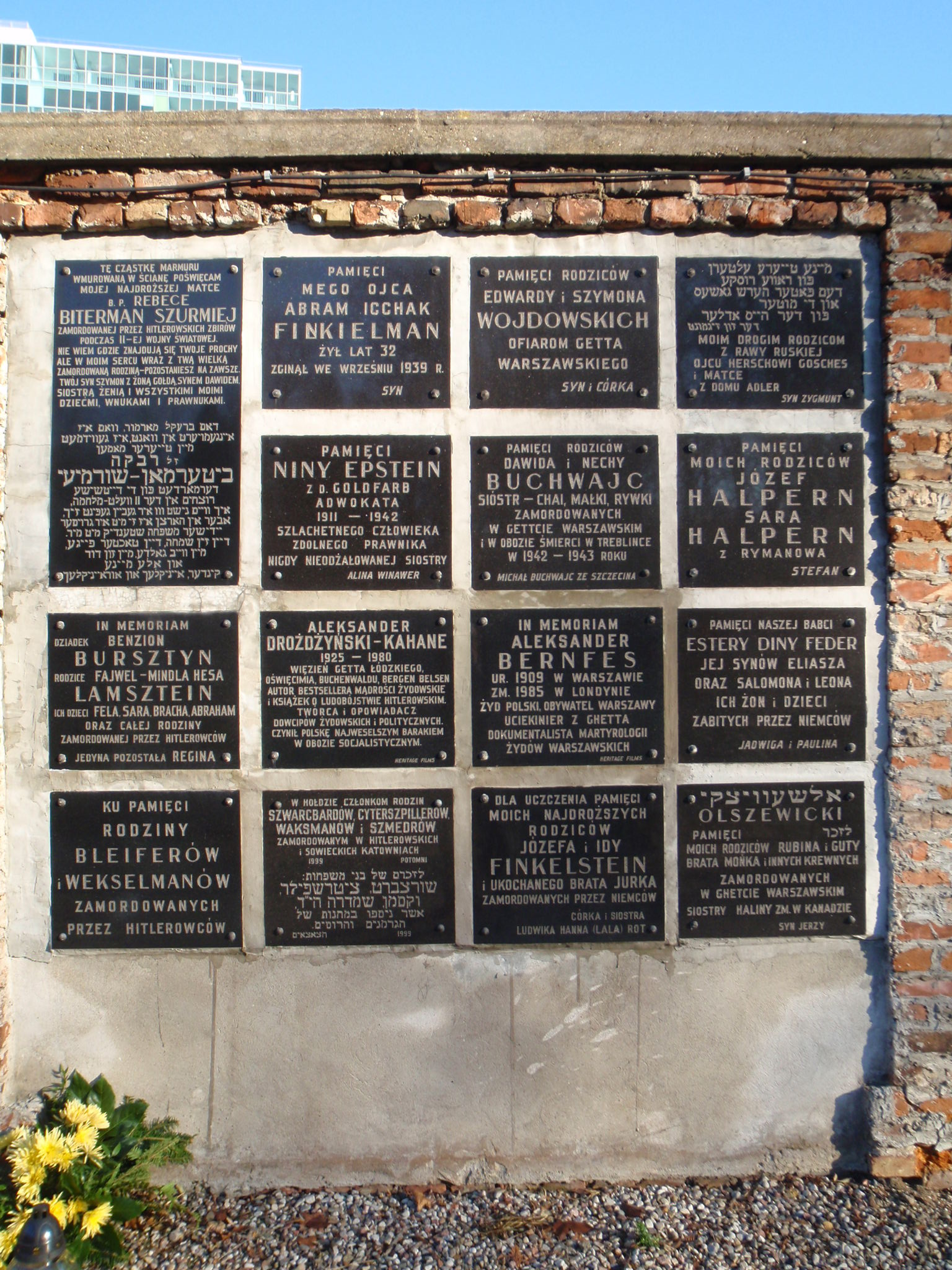 Commemorative plaques on the wall of Jewish cemetery in Warsaw